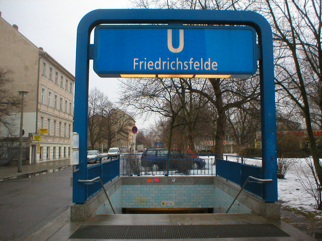 the Berlin U-Bahn station Friedrichsfelde, line U5